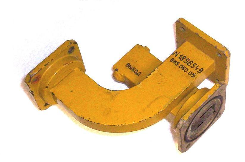 Moreno cross-guide directional coupler. The limb with no port-flange incorporates a matched load. The waveguide is WG16 (WR90) indicating an operating frequency of about 9 GHz. The coupling between the guides is by means of two 6 mm diameter holes.